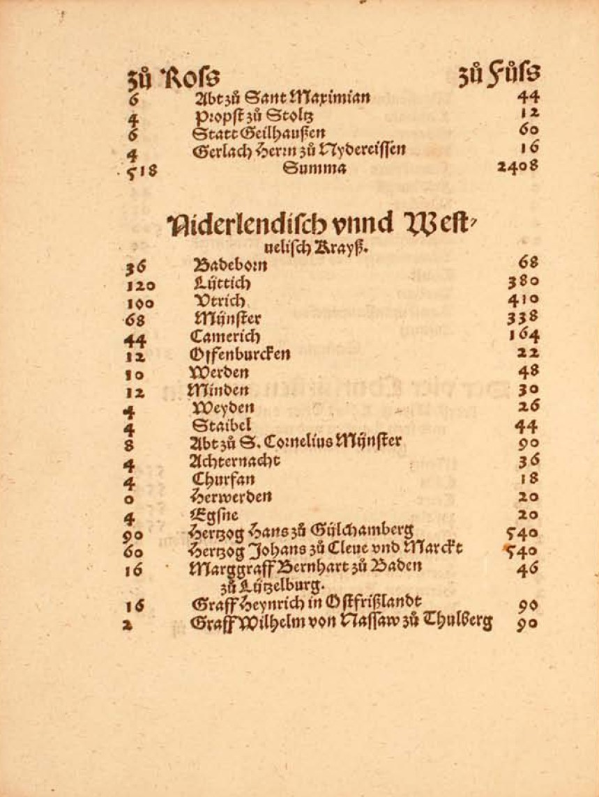 This is a scan of the historical document